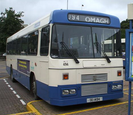 The Omagh Bus. Of course it would have to be the Omagh bus, as it and several others have come from somewhere else to stop here. Actually, the buses won't be here after hours as they could be vandalised. They are parked overnight at the "secure" enclosed bus maintenance park on the Tamlaght Road. With mentioning the word secure, it has been noted for not even this arrangement to be satisfactory, going by past incidents.